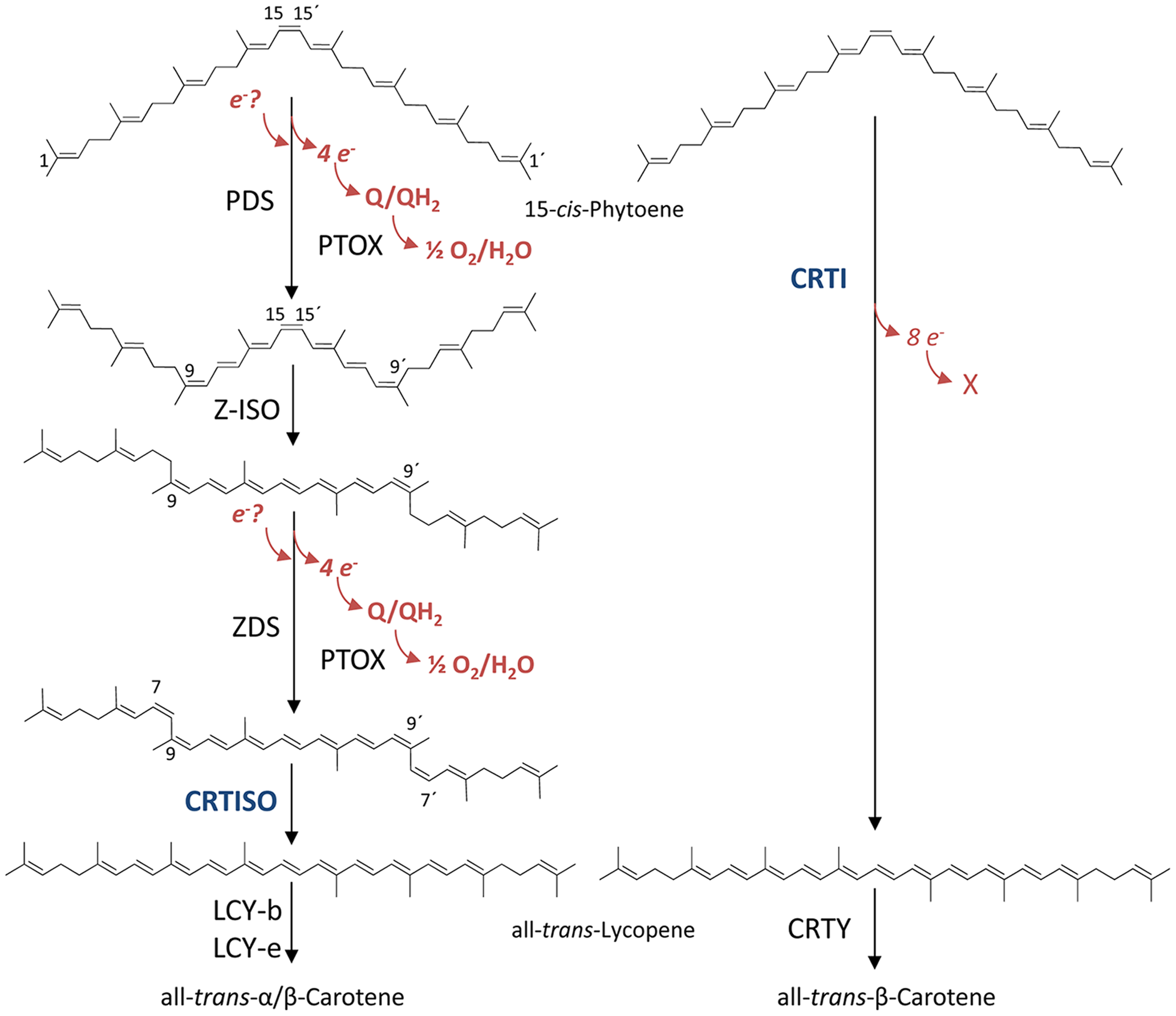 Phytoene desaturation – “complex” vs. “simple”